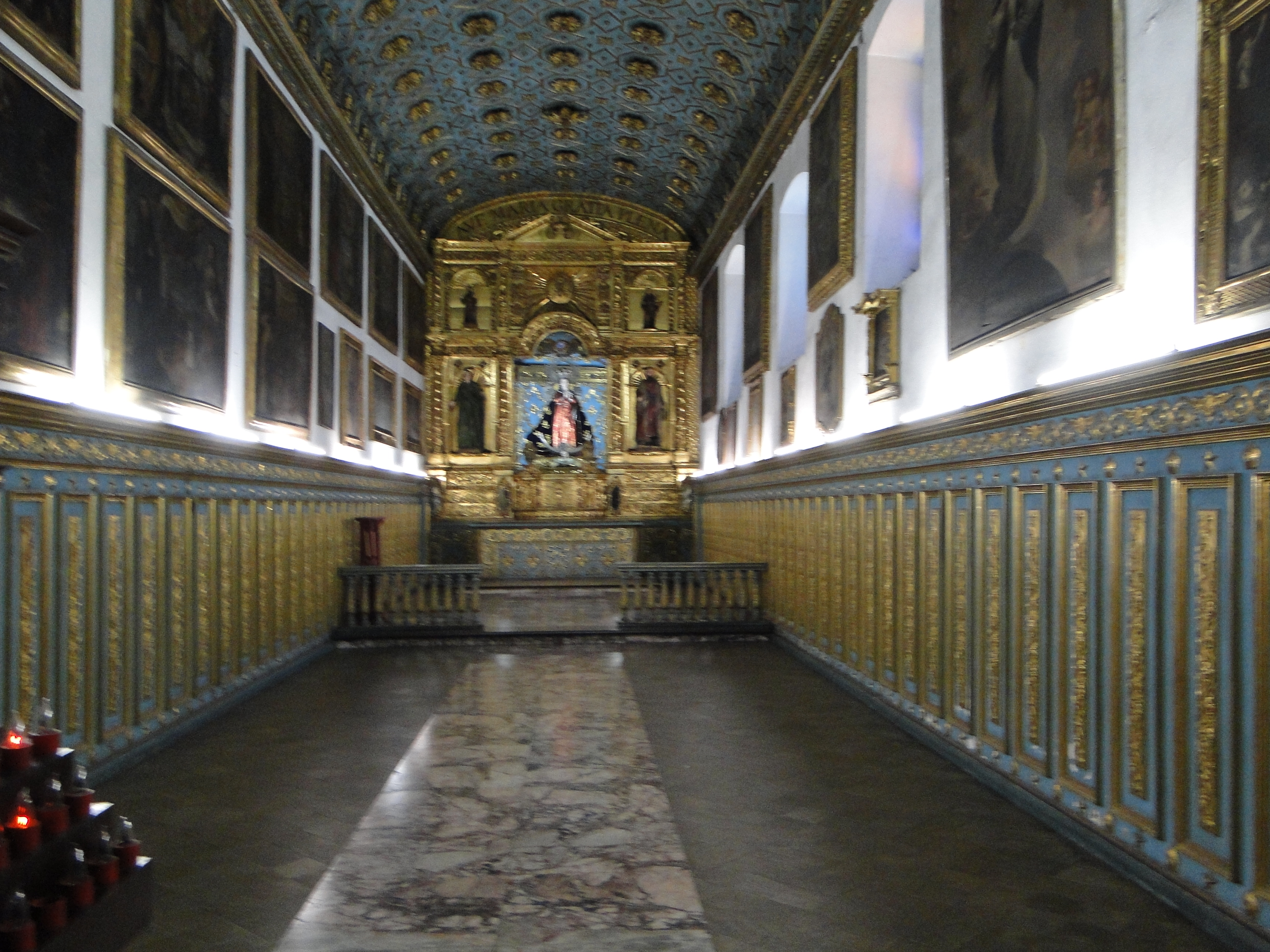 In San Francisco church in Bogota